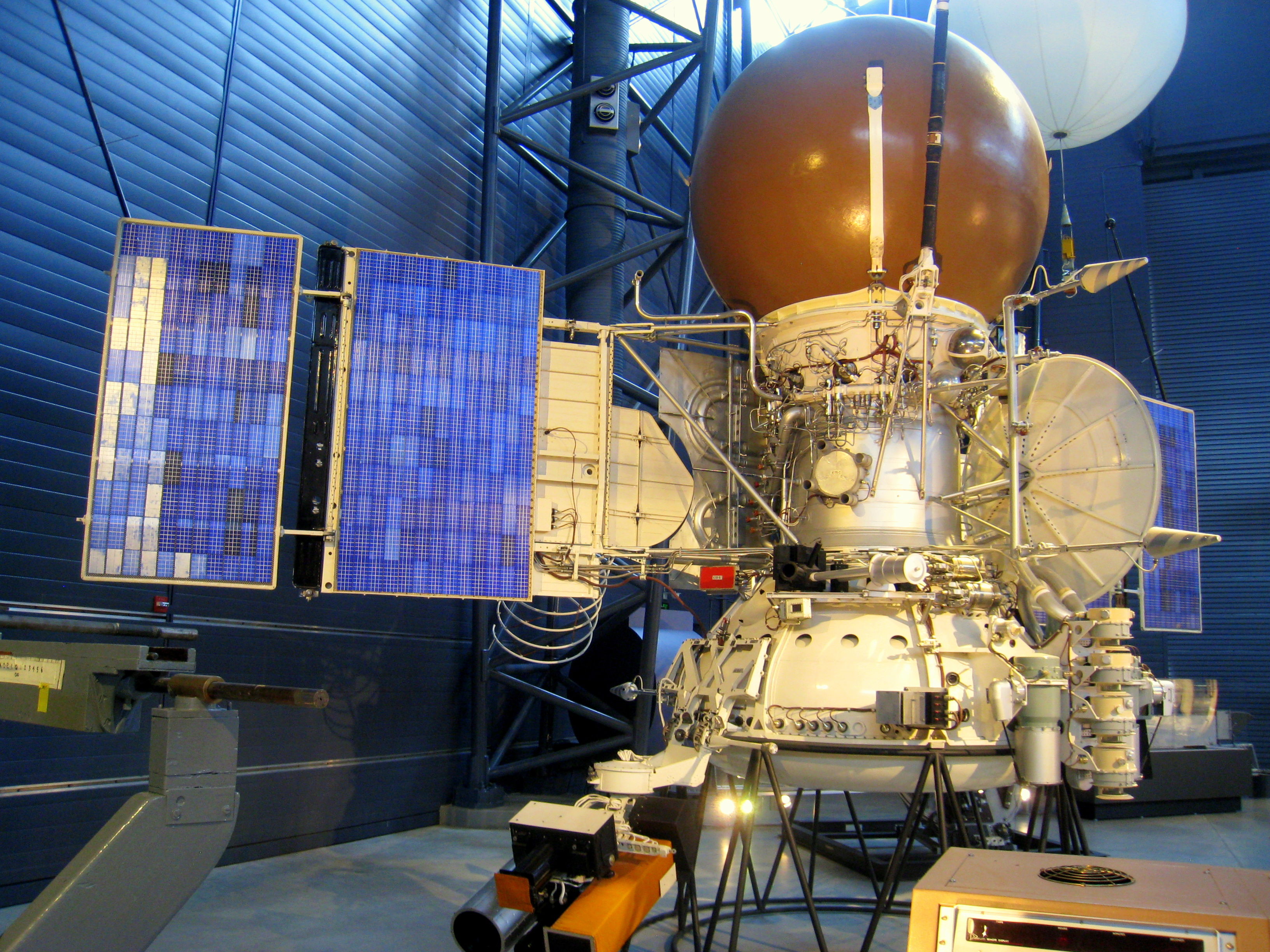 Vega solar system probe bus and landing apparatus (model) - Udvar-Hazy Center, Dulles International Airport, Chantilly, Virginia, USA.